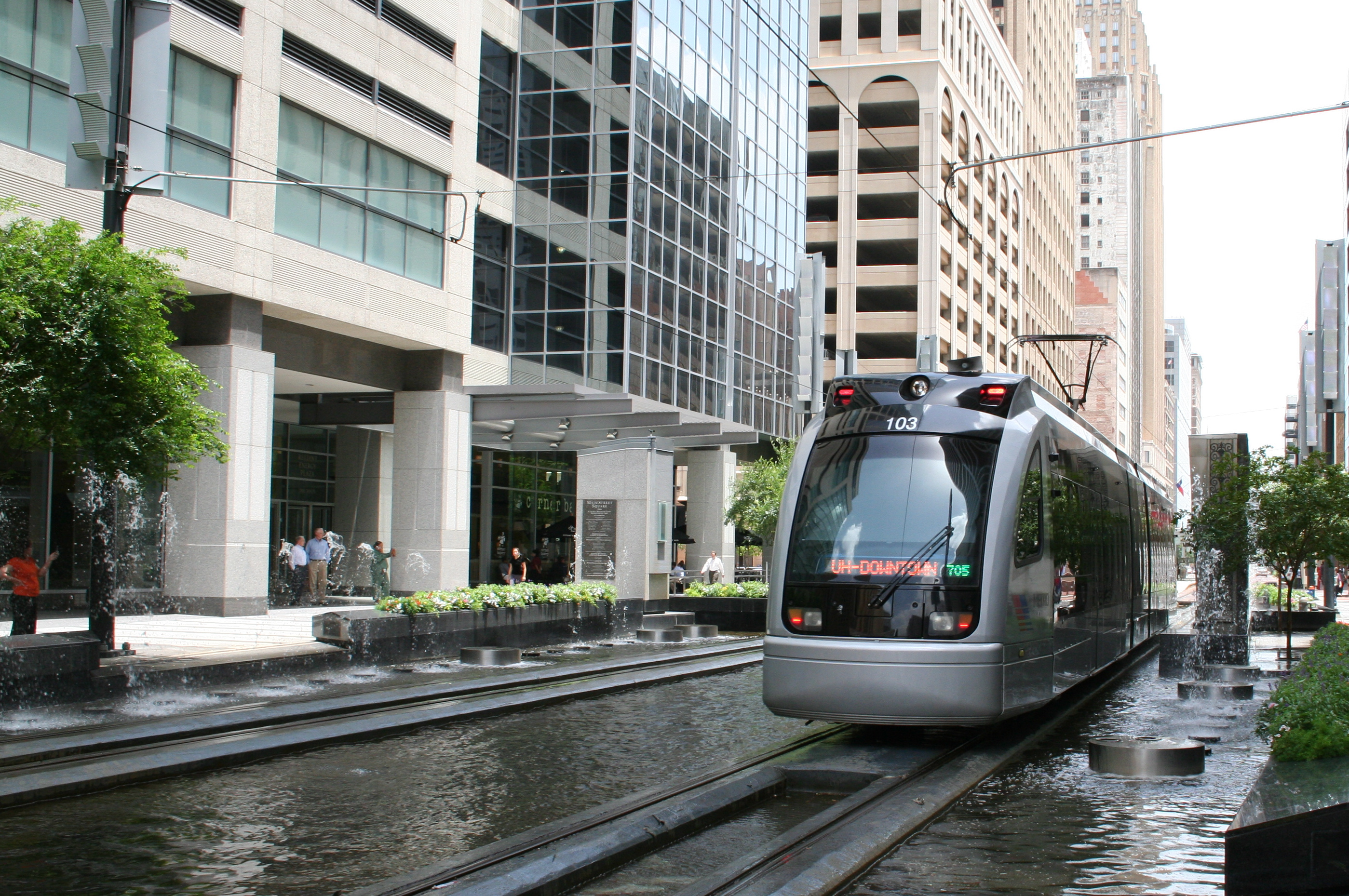 METRORail on Main Street in Downtown Houston